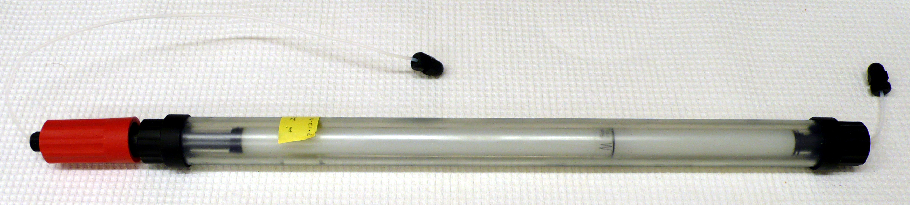 Superdex 200HR gel filtration column